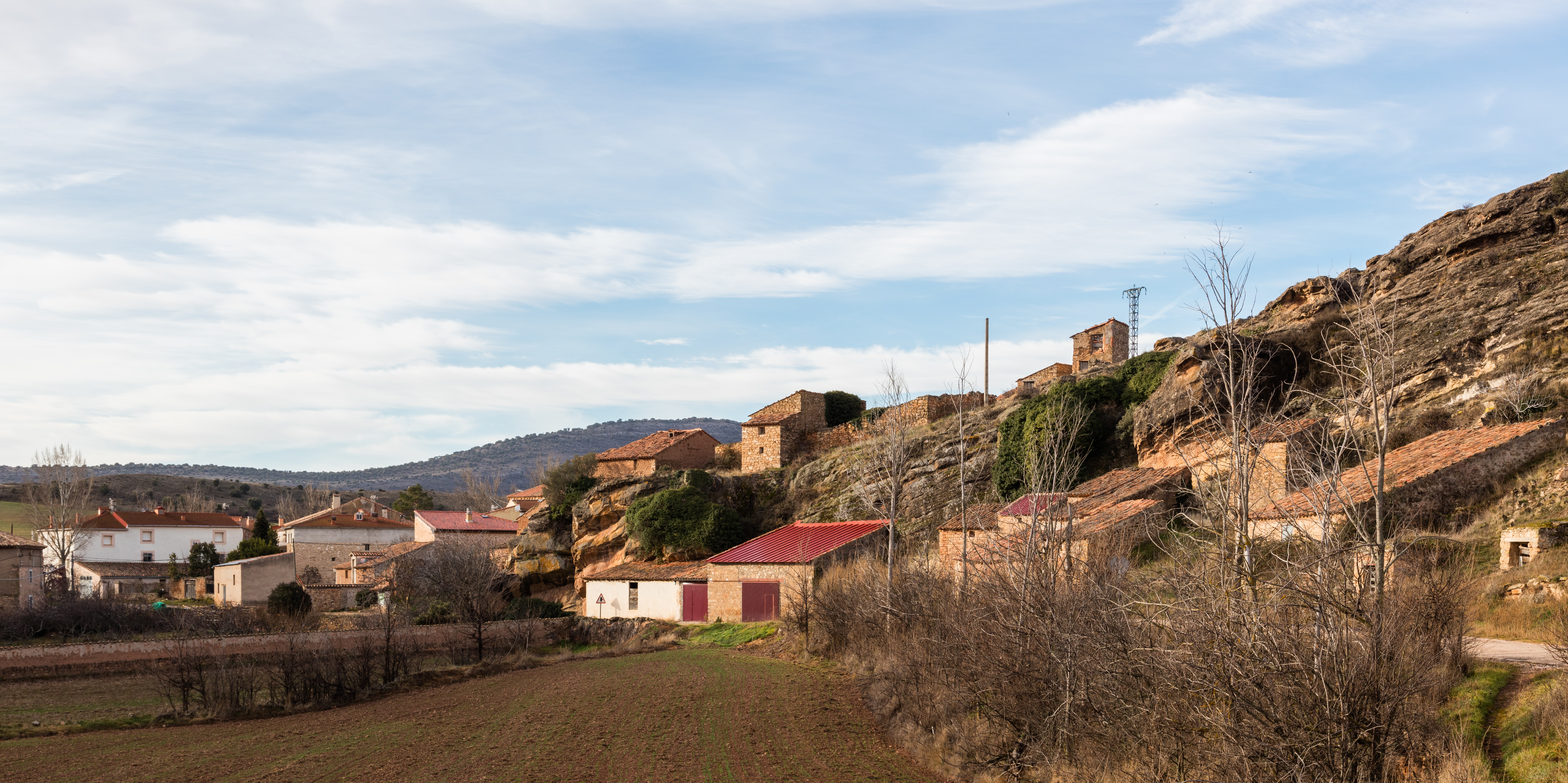 La Alameda, Soria, Spain